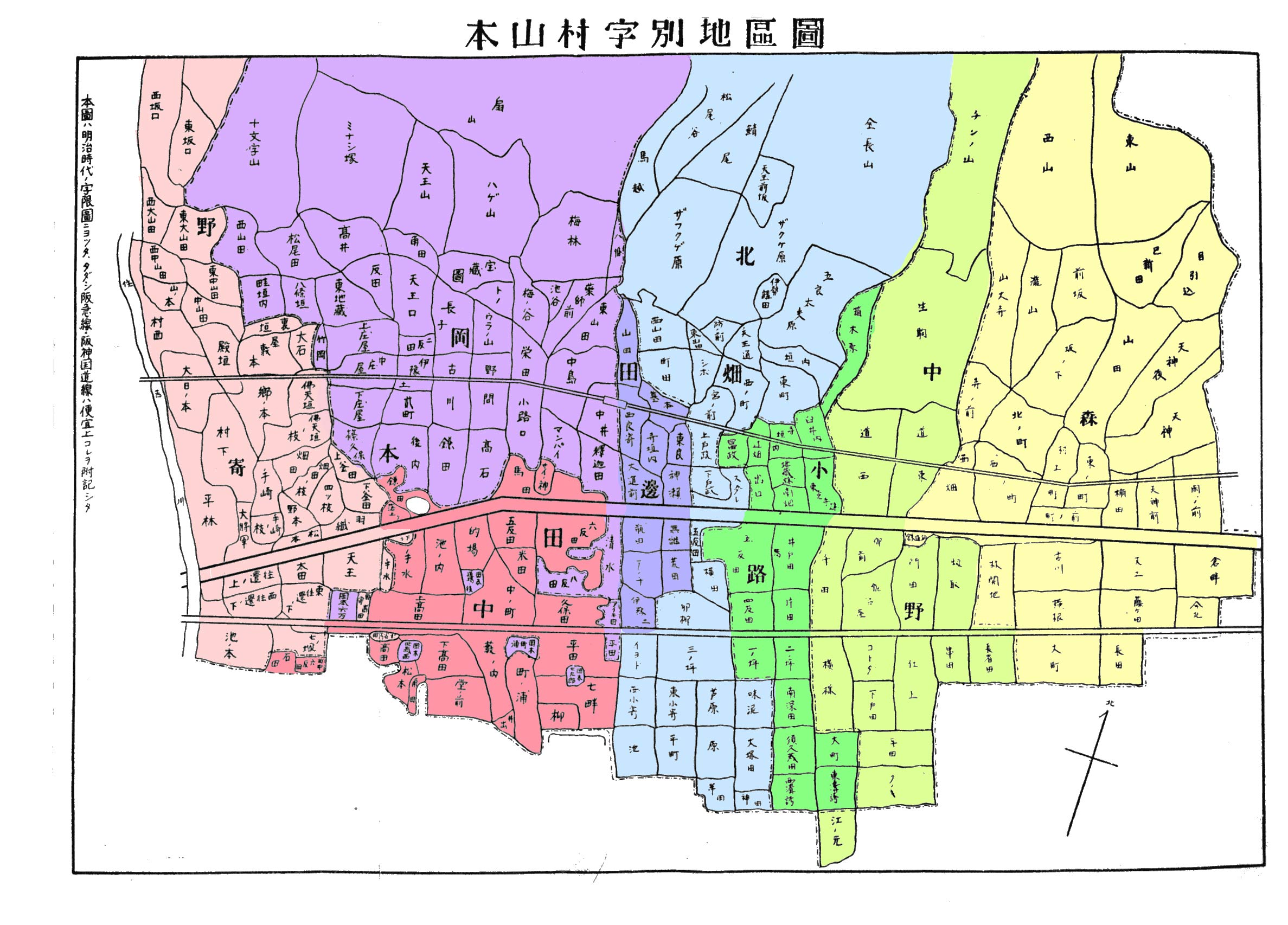 Section of Motoyama village, Muko county, Hyogo, Japan(coloured to the settlements)